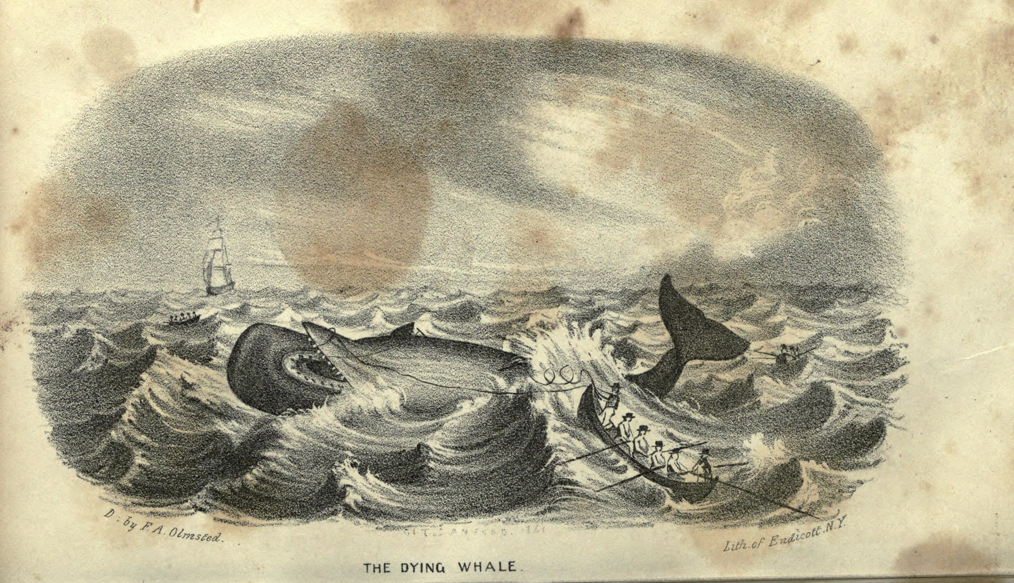 The Dying Whale. Drawn by Francis Allyn Olmsted. Lithograph of Endicott, N. Y.